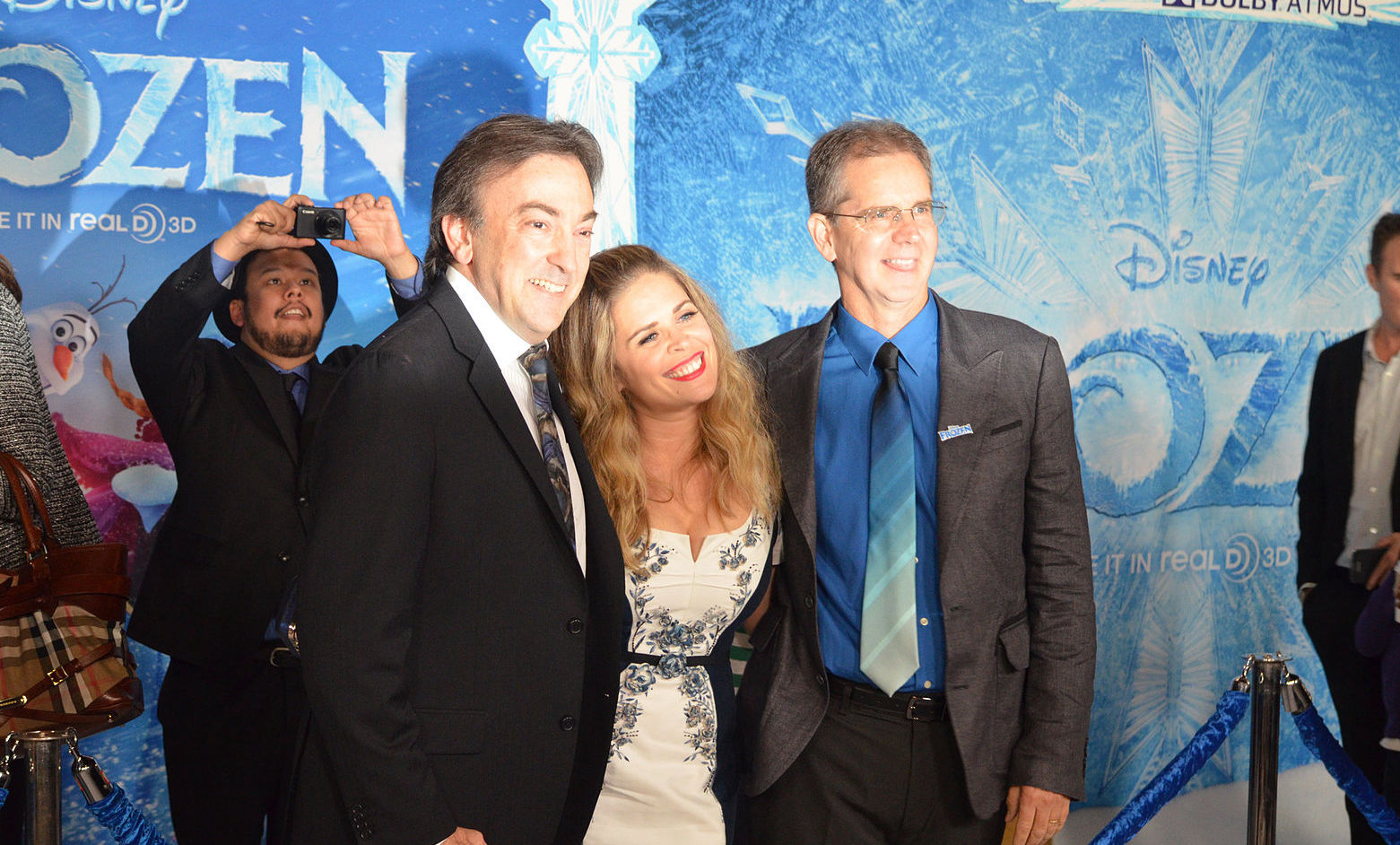 Peter Del Vecho (producer), Jennifer Lee (director) and Chris Buck (director) at the premiere of Disney's animated feature film Frozen at Hollywood's El Capitan Theatre